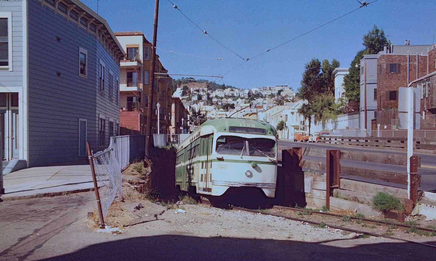 San Francisco PCC streetcar No. 1125 (ex-St. Louis), inbound on the L-line, leaving the Twin Peaks Tunnel at East Portal, coming up the ramp to 17th & Castro, on September 11, 1982. This was eight days before what was then scheduled to be the final day of operation of PCC cars in regular service in San Francisco and of any streetcars on the surface of Market Street, on Sep. 19, 1982. Service did end, but contrary to the original plans, it resumed 9 1/2 months later, on a temporary basis, and became regular and year-round a few years later and permanent in 1995. However, after 1991, streetcars serving the surface of Market Street reached it via the J-line, rather than via the Twin Peaks Tunnel and portal shown here.